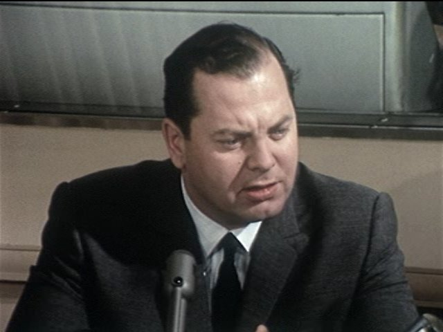 Frame from the promotional film "WJR: One of a Kind". Detroit mayor Jerome Cavanagh